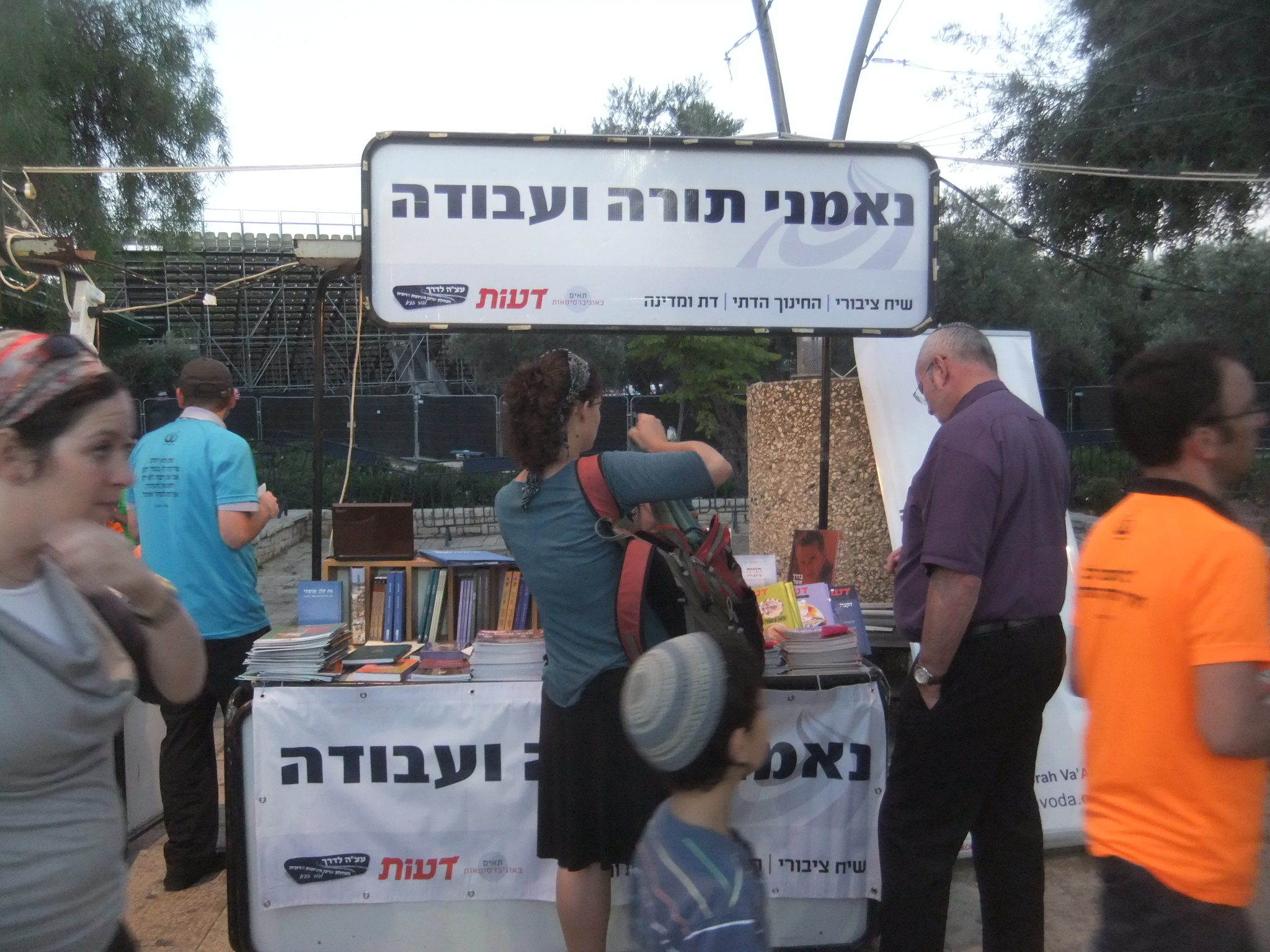 Neemanei Torah vaavoda at Hebrew Book Week 2013 fair in Jerusalem